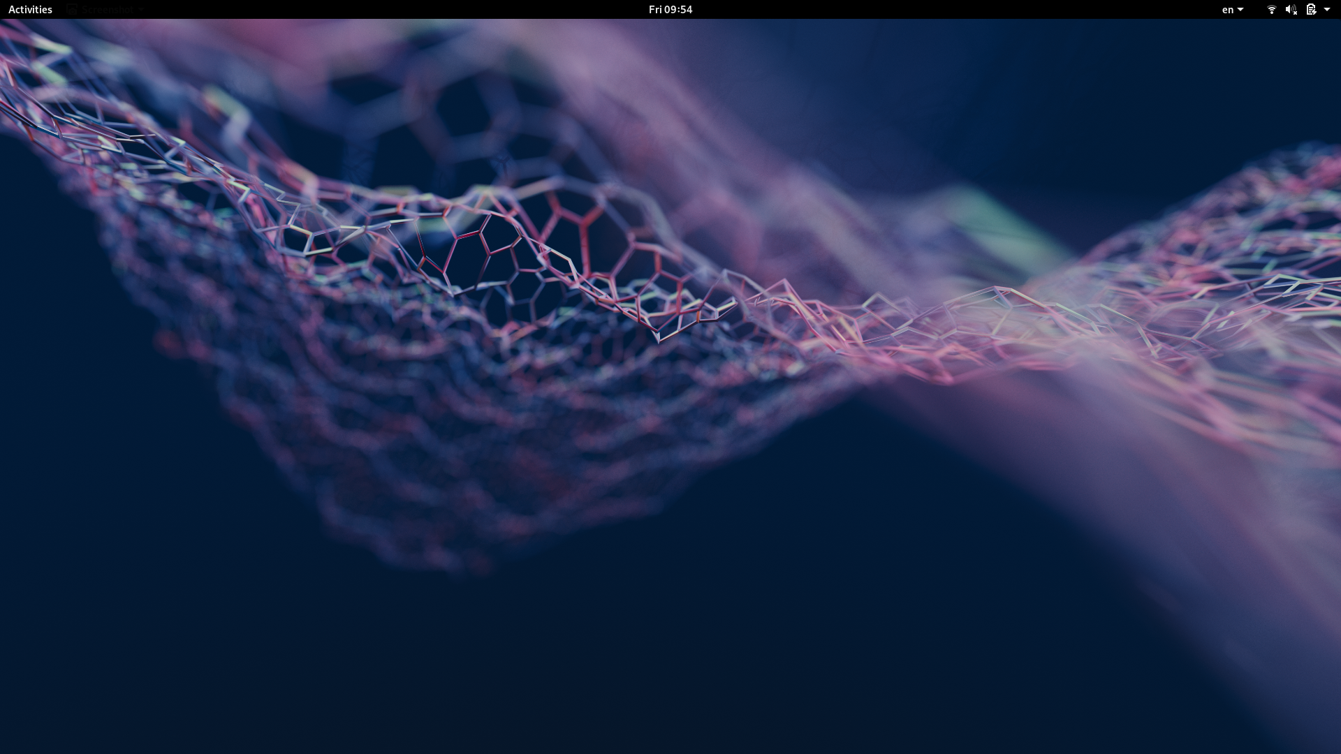 Fedora 29 GNOME